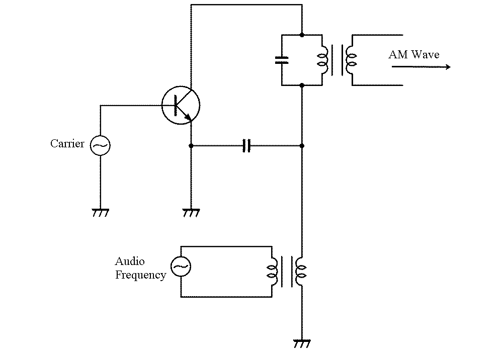 A circuit of collector modulation for amplitude modulation (AM, DSB with carrier).